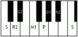 Notes of the Natabhairavi ragam in Carnatic music shown in a keyboard layout. See swaras in Carnatic music for details on the notation used. In this image C is used as Shadjam for simplicity sake only. In Carnatic music any note can be the tonic note (sruti), which is taken as Shadjam note. This image is for use in Wikipedia ragam articles and articles related to Carnatic music.